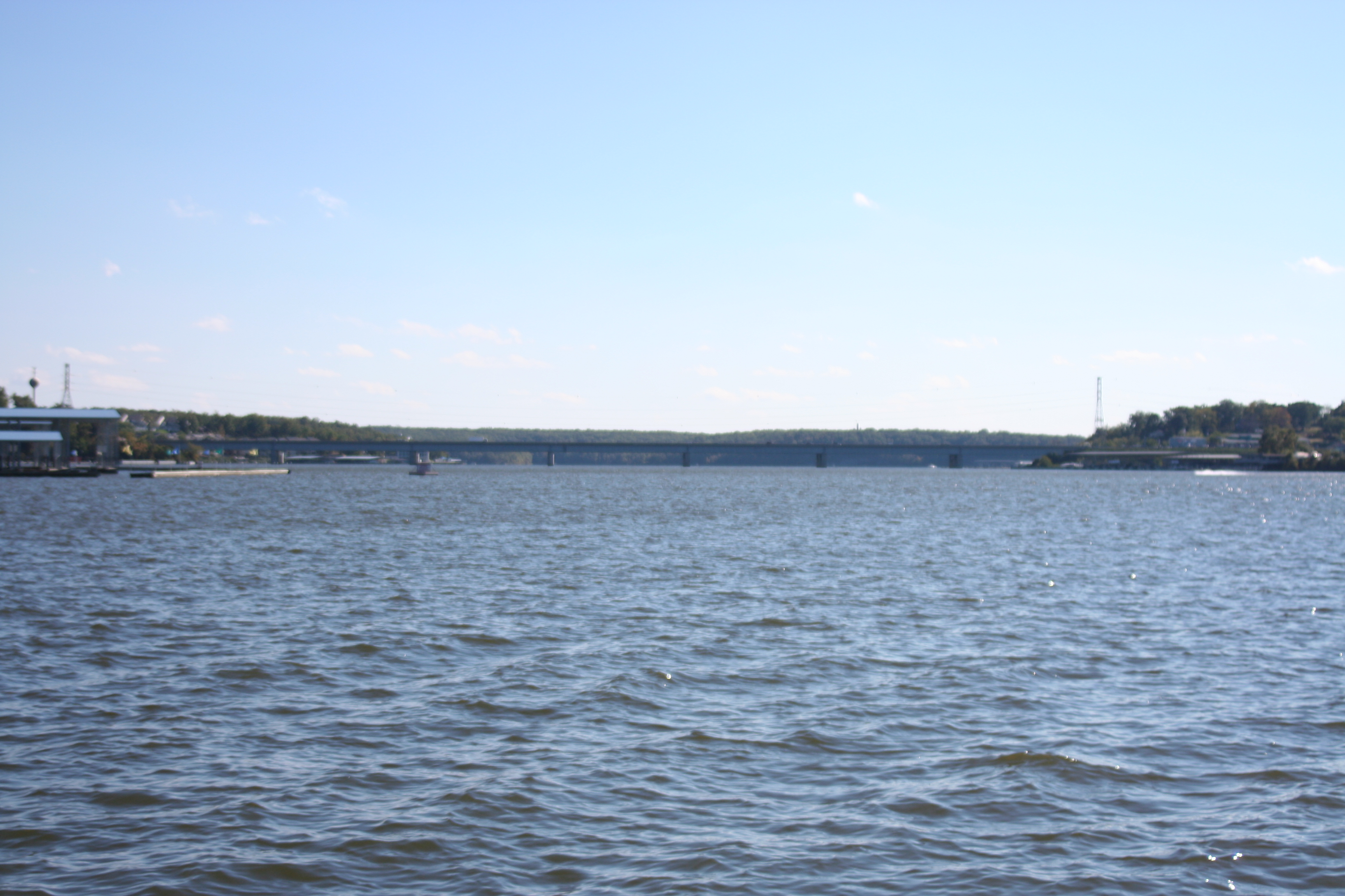 The Grand Glaize Bridge in Osage Beach, Camden County, Missouri, USA. This is Route 54. Mile Marker=?